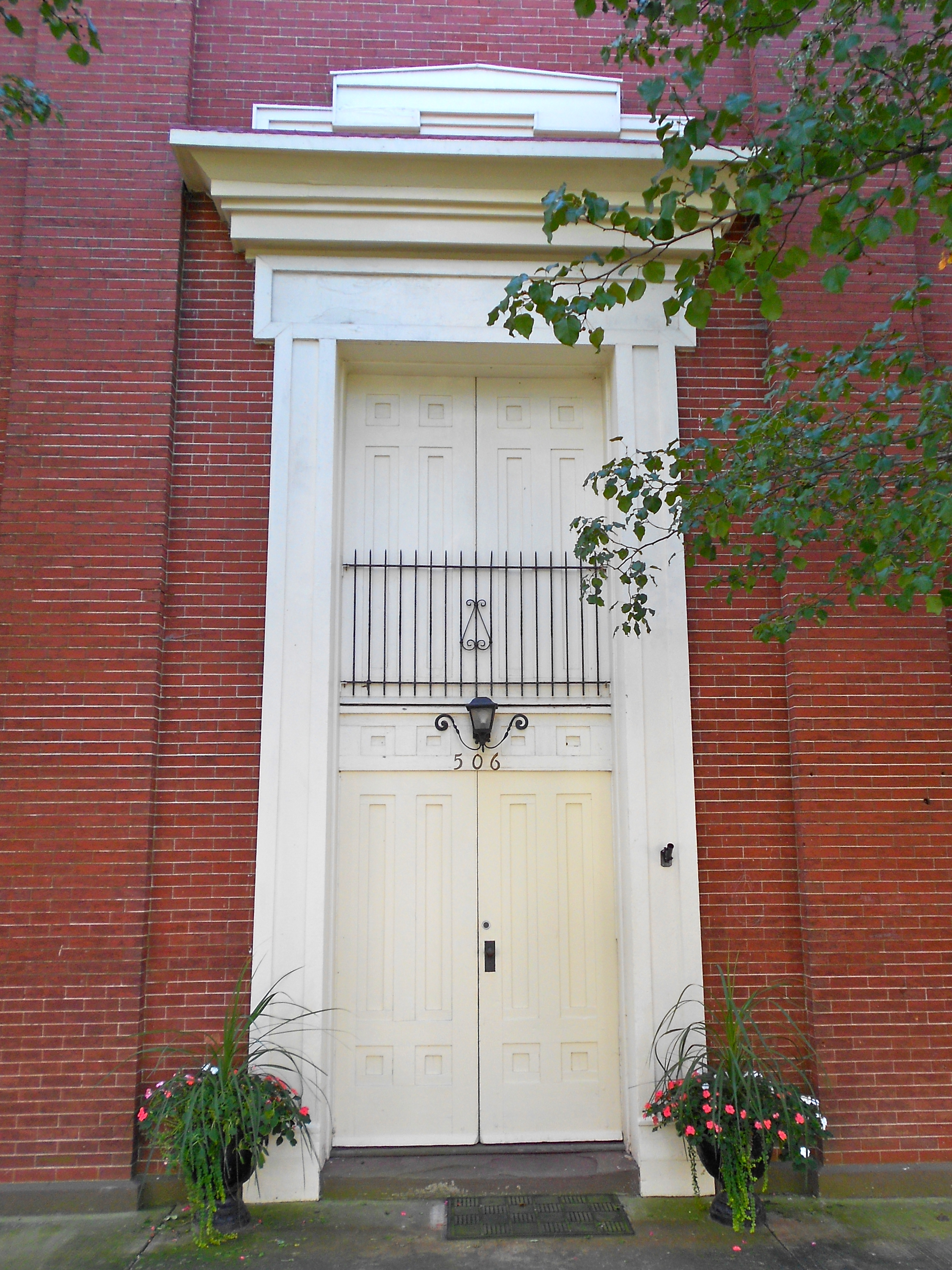 Old St. Paul's Methodist Episcopal Church listed on the NRHP on May 13, 1982. On High St., Odessa, New Castle County, Delaware. This is the main door in front. The doors behind the iron railing, according to a neighbor, open up to the main church hall. Newlyweds would stand and wave to the crowd from there. Faces north with many trees in front of it. Try photographing it in winter after the leave have fallen. Samuel Sloan architect.